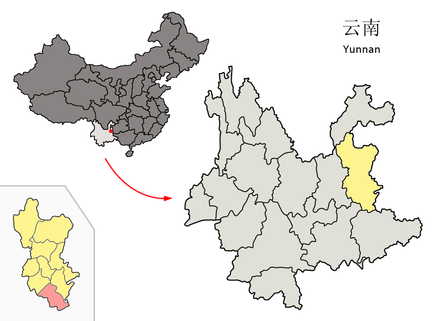 Location of Shizong County (pink) and Qujing Prefecture (yellow) within Yunnan province of China Map drawn in september 2007 using various sources, mainly : Yunnan province administrative regions GIS data: 1:1M, County level, 1990 Yunnan Counties map from